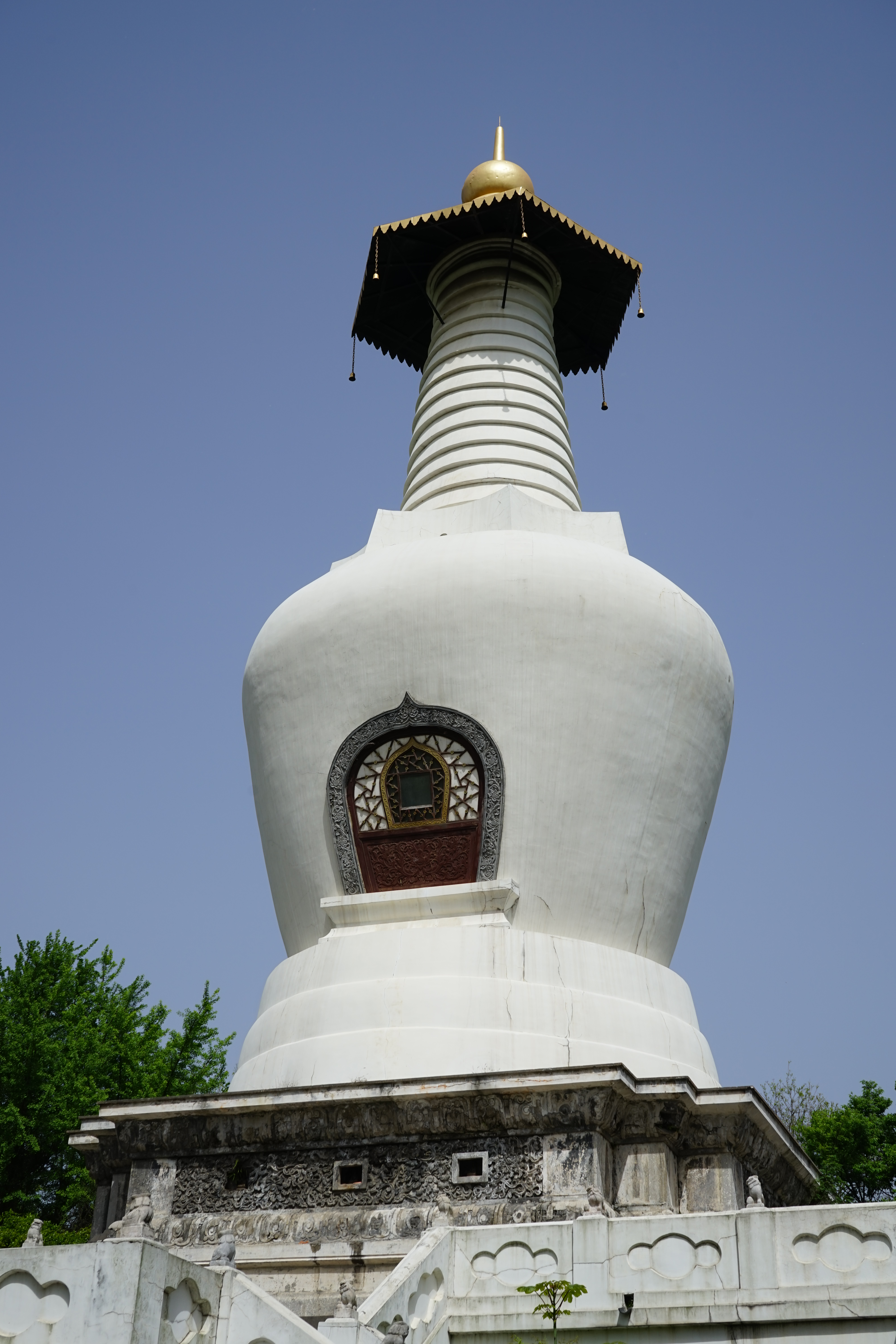 The white pagoda was built in 1784 with 28.5 meters high, was a duplicate of the White Park of Beihai Park. It's said this pagoada was built overnight to welcome Emperor Qianlong.